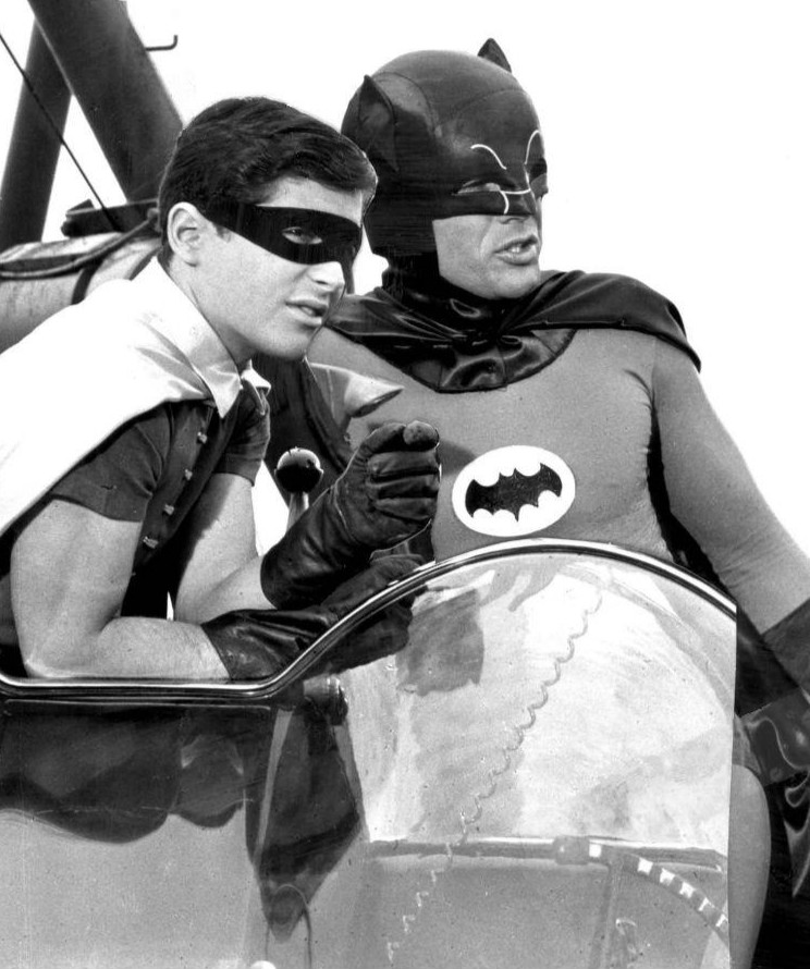 Photo of Adam West as Batman and Burt Ward as Robin.